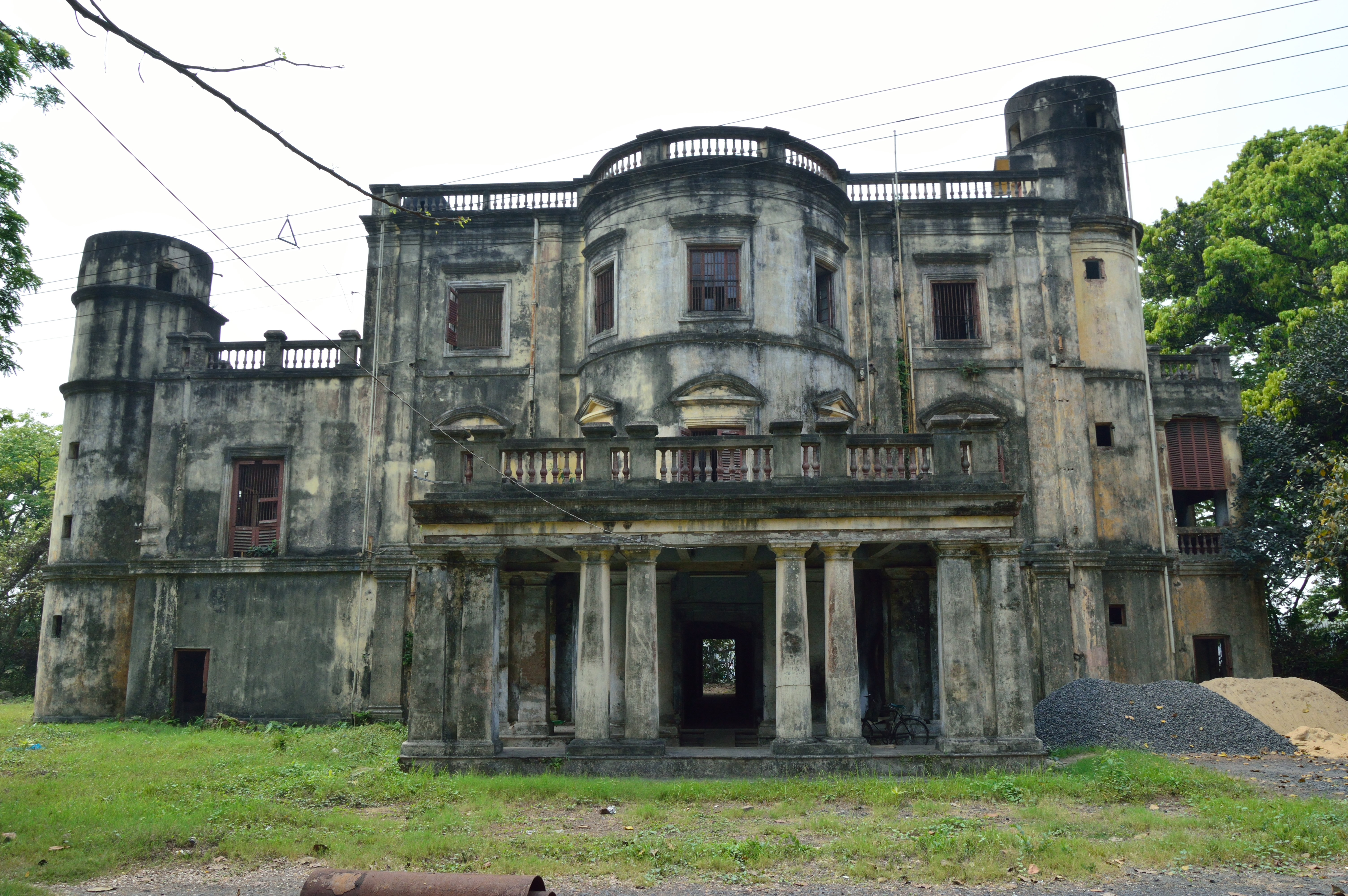 The Roxburgh Building, 200 year old structure of the botanical garden at Howrah, was known as ‘East India Company’s Garden’ or the ‘Company Bagan’ or ‘Calcutta Garden’ and later as the ‘Royal Botanic Garden’ which after independence was renamed as the ‘Indian Botanic Garden’ in 1950. It came under the management of the Botanical Survey of India on January 1, 1963. From June 25, 2009 it is renamed as ‘Acharya Jagadish Chandra Bose Indian Botanic Garden’.